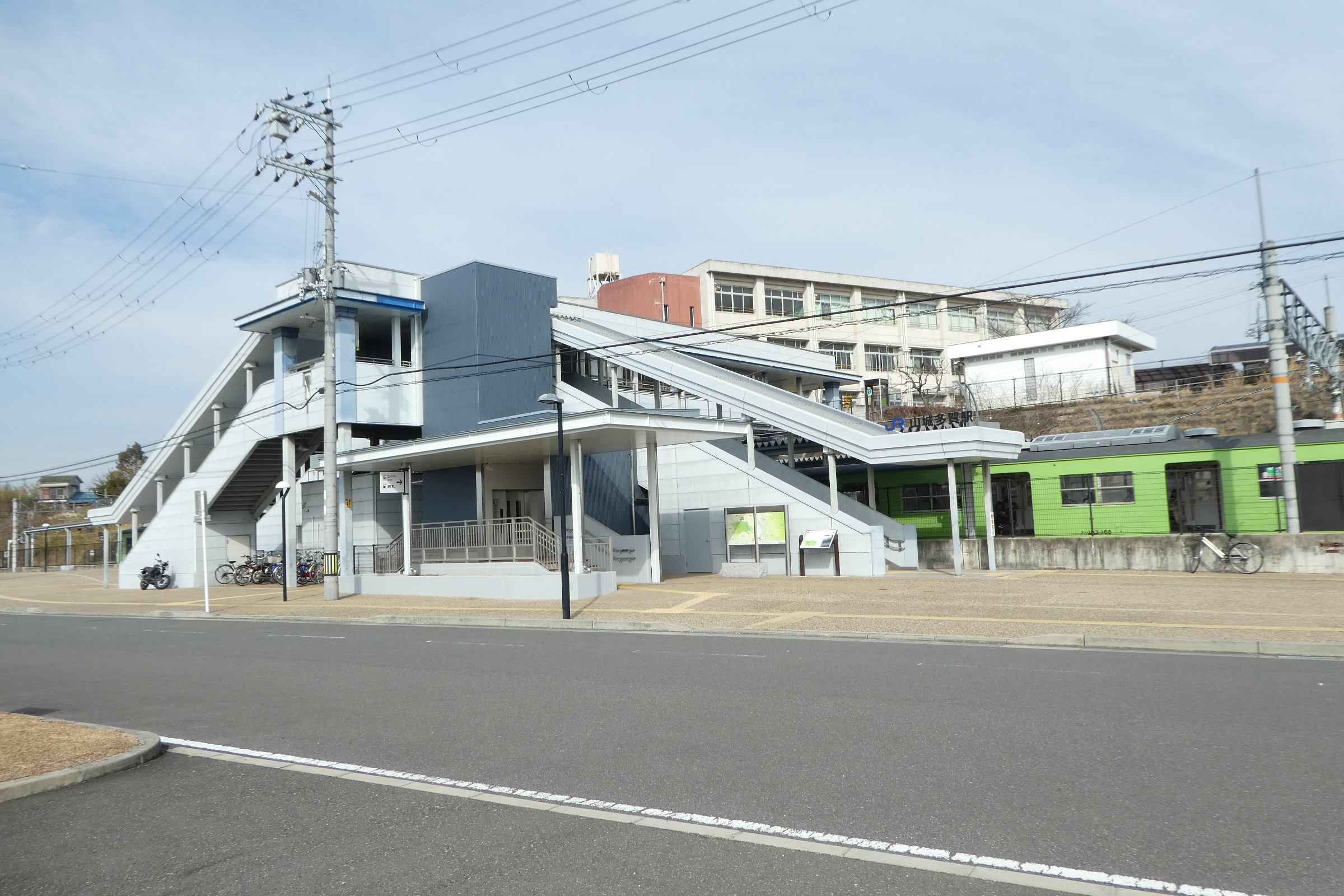 West Japan Railway Nara Line Yamashiro-Taga Station west entrance